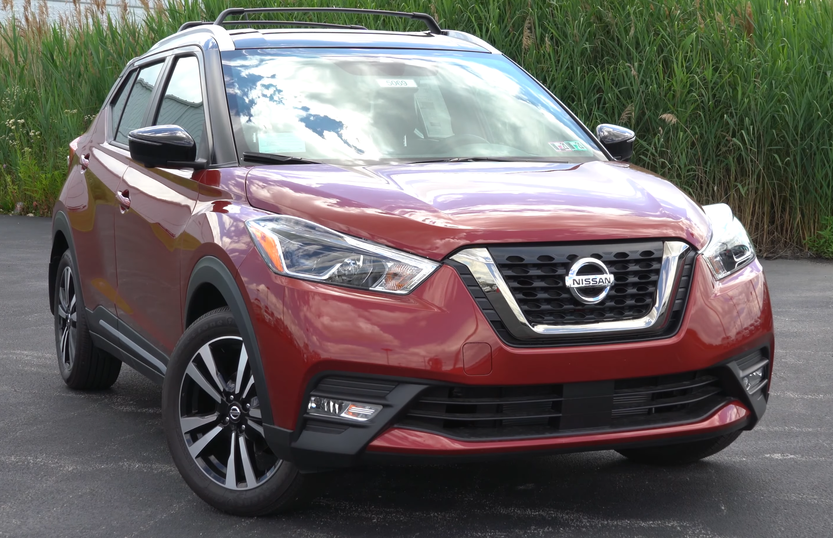 2020 Nissan Kicks front view (United States)